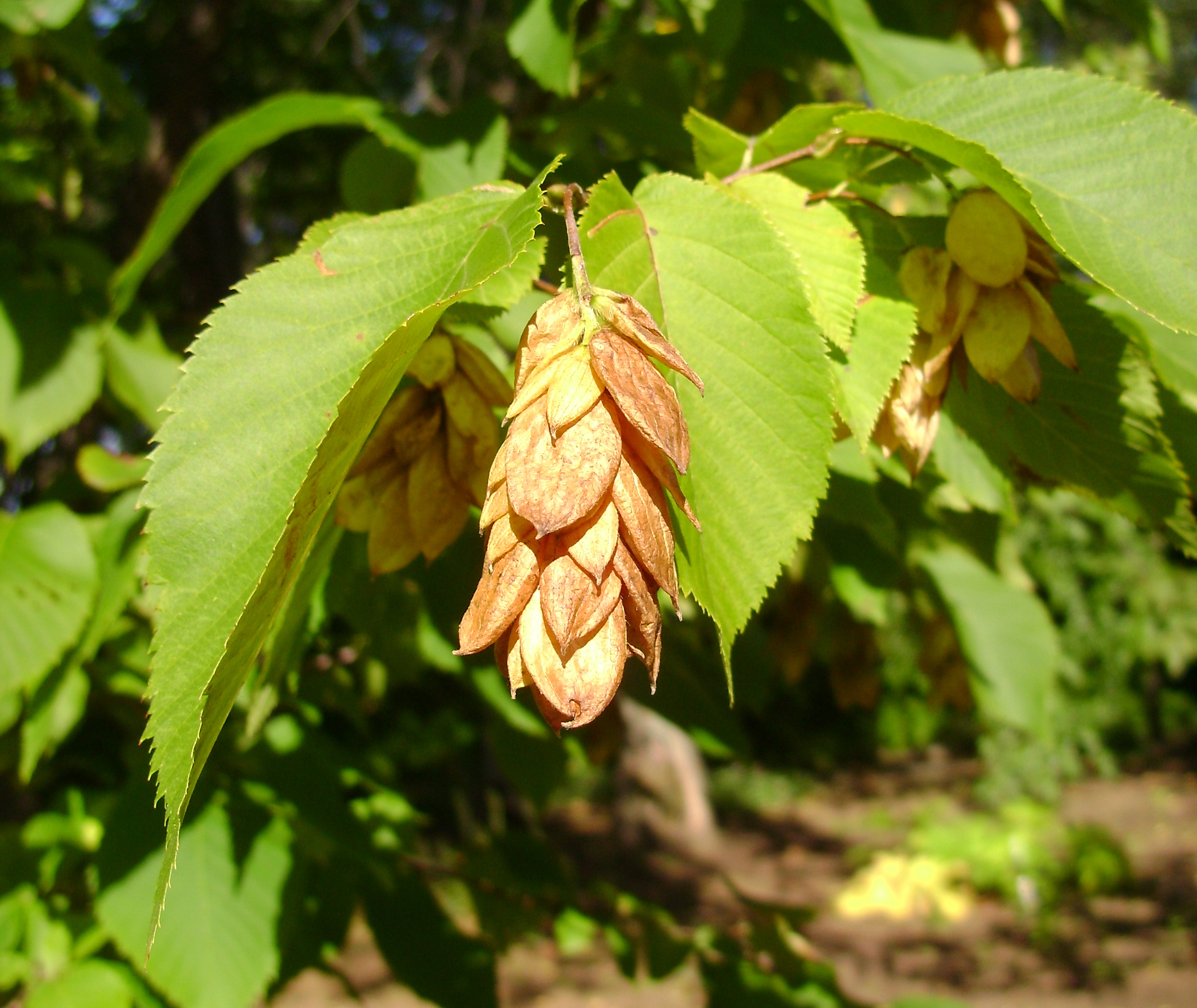 American Hophornbeam (Ostrya virginiana) fructification. Photo taken on the Plains of Abraham, Québec City.